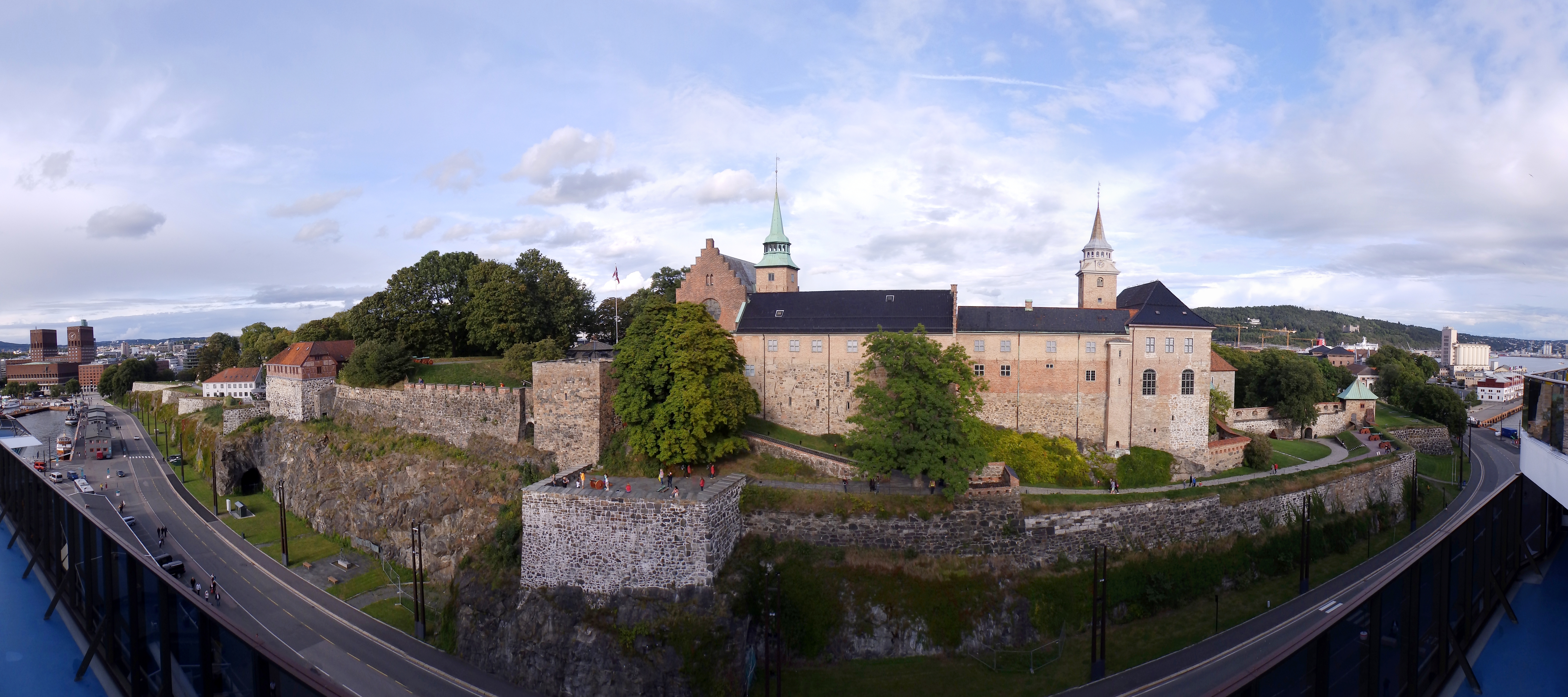 Akershus Fortress 2014